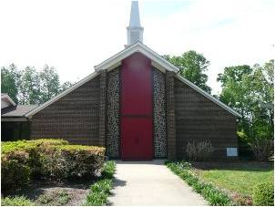 St. Paul's Reformed Church — Late Gothic Revival style, main facade and bell tower. Catawba County, North Carolina. (Main Picture)